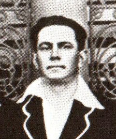 Arthur Alloo, extracted from photograph of New Zealand cricket team in 1925-26